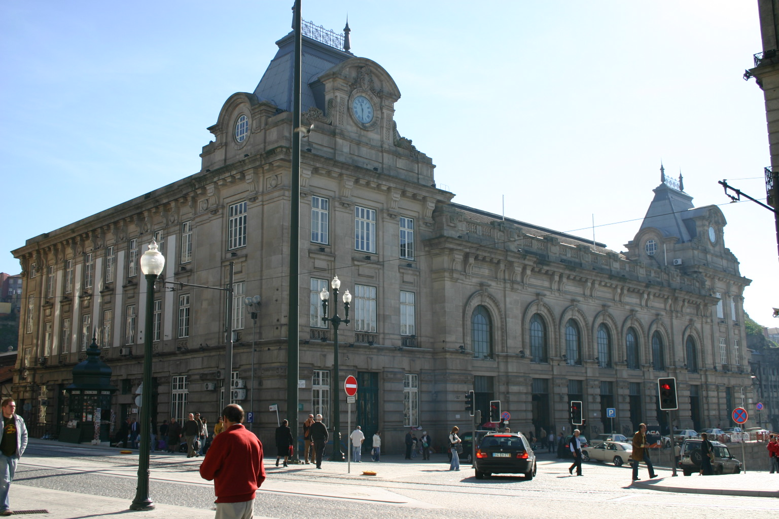 Porto São Bento train station, Porto, Portugal